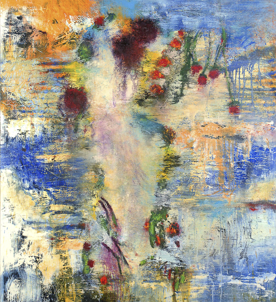 Painting by Adam Shaw